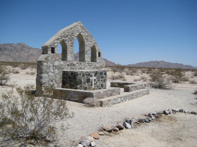 Iron Mountain Divisional Camp -Patton This site was designated as an ACEC due to the historical significance of the area. Camp Iron Mountain is the best-preserved divisional camp today, and is famous for being one of two camps that have rock chapels that still stand. The chapels that are found are of Protestant and Catholic denomination.